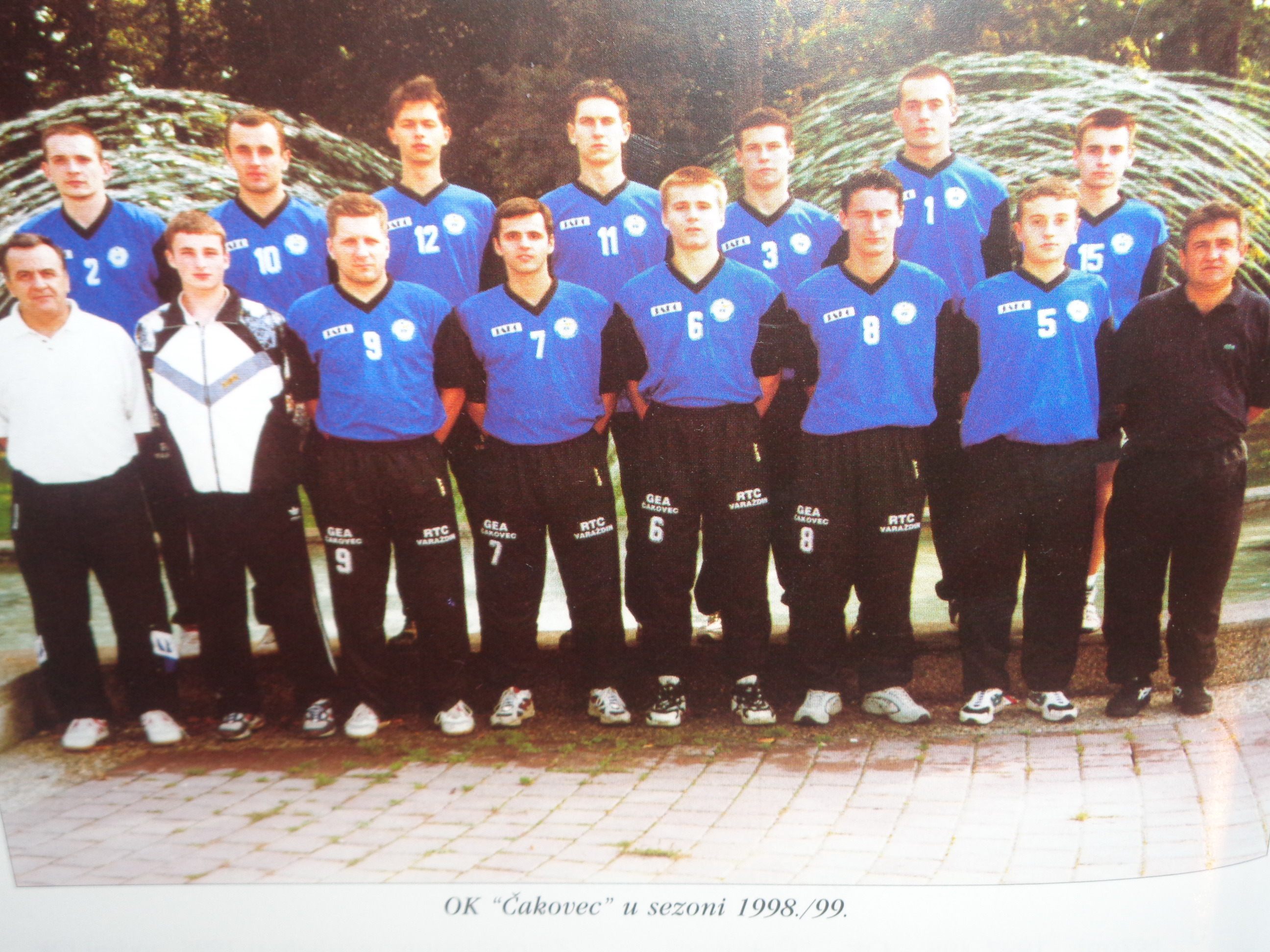 OK "Čakovec" volleyball team from 1998/99, Čakovec, Croatia